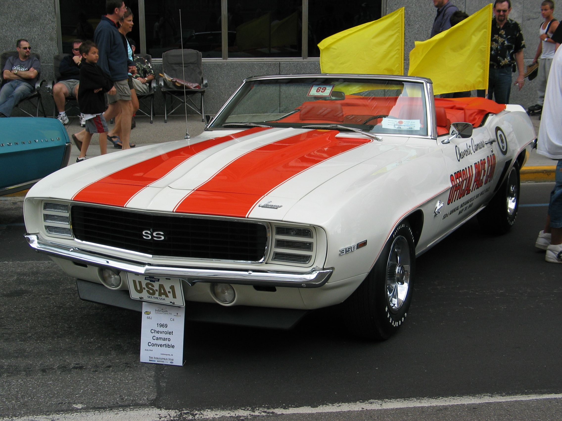 A 1969 Chevrolet Camaro Indianapolis 500 Pace Car on display at the 2005 United States Grand Prix.